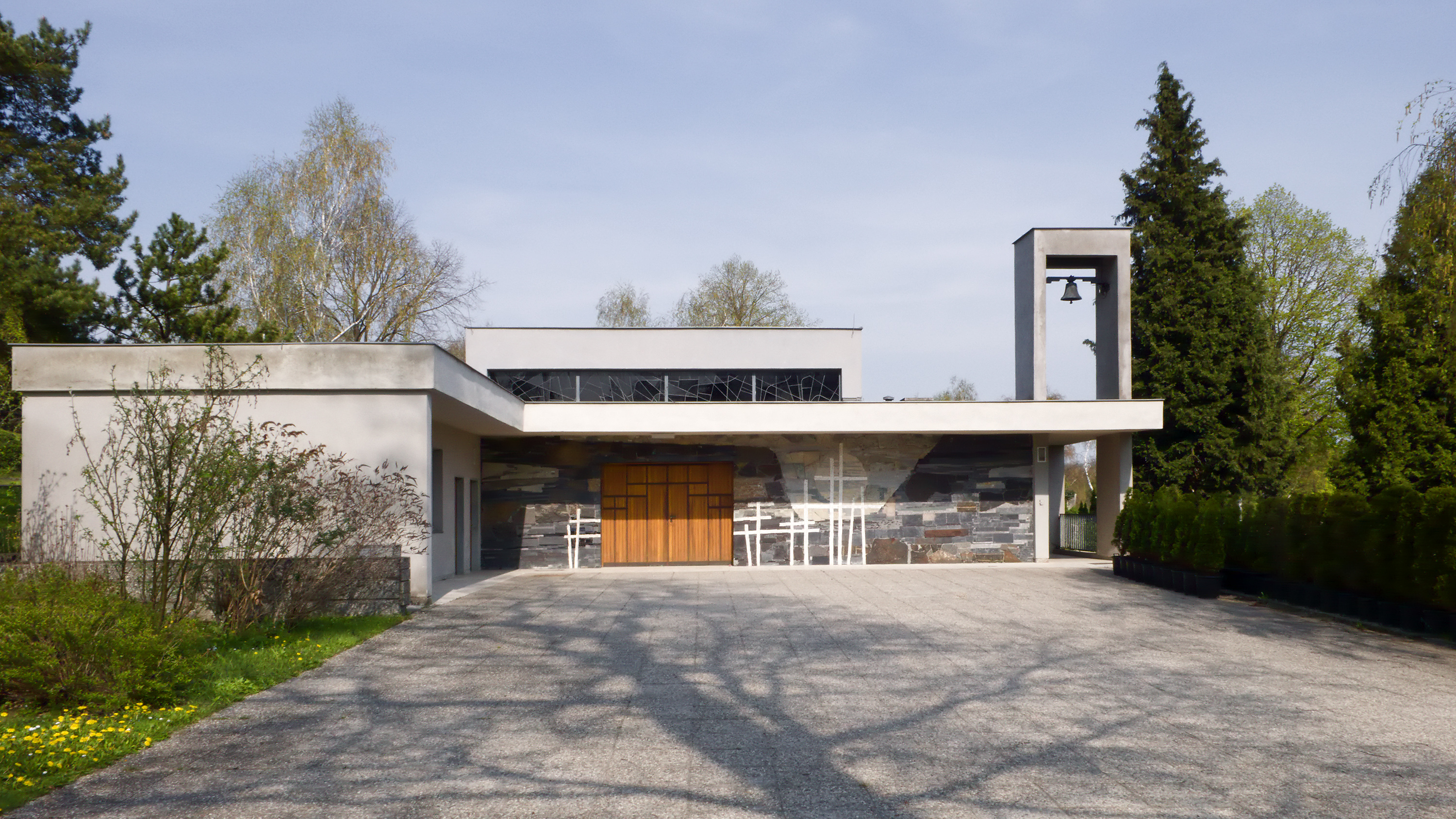 Cemetary Hütteldorfer Friedhof in Vienna Penzing